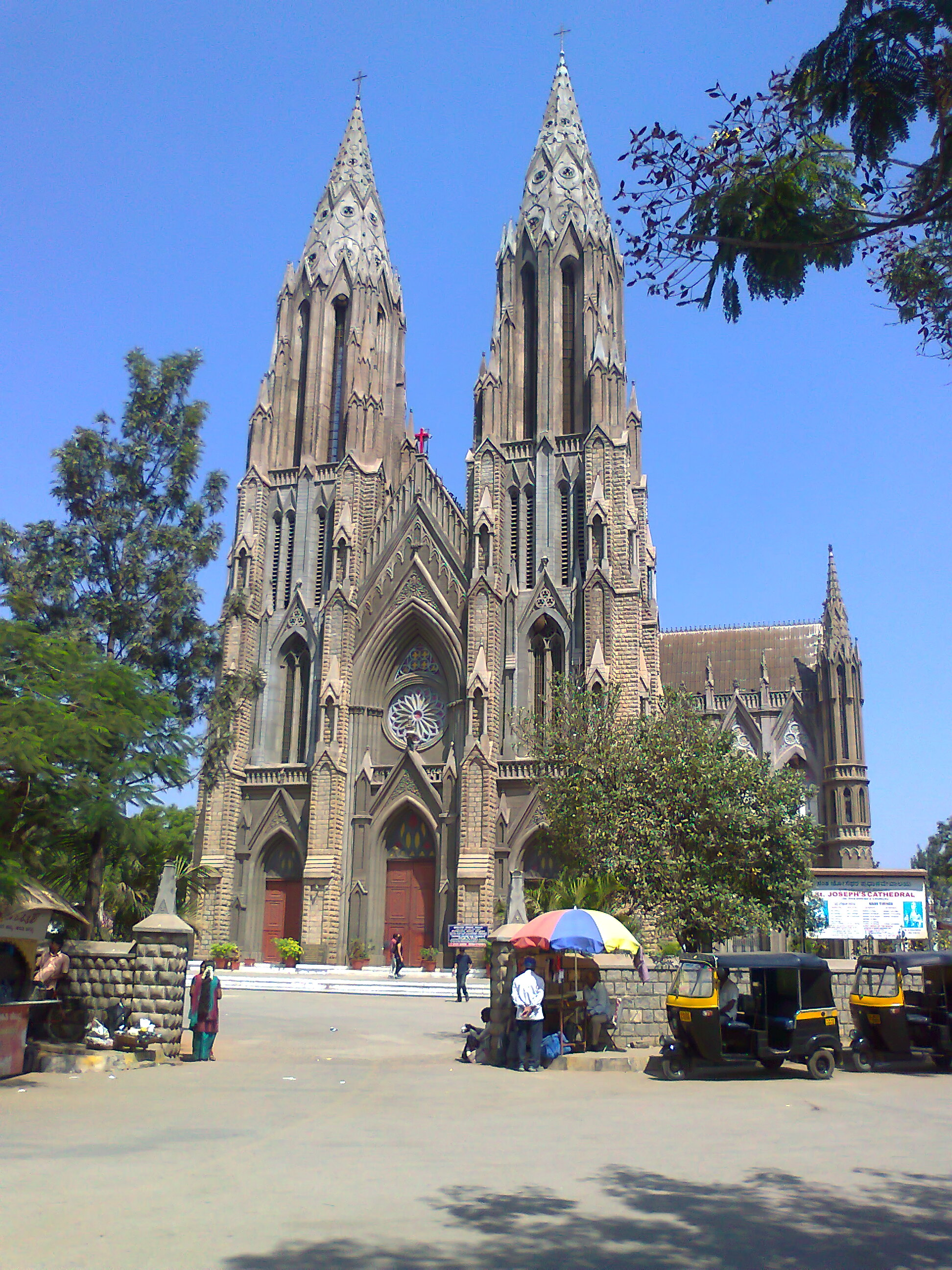 i caught this pic during our final year diploma tour, we call 'the Roadtrip' to Mysore, Banglore and Koorg. this pic was caught by my nokia X2.